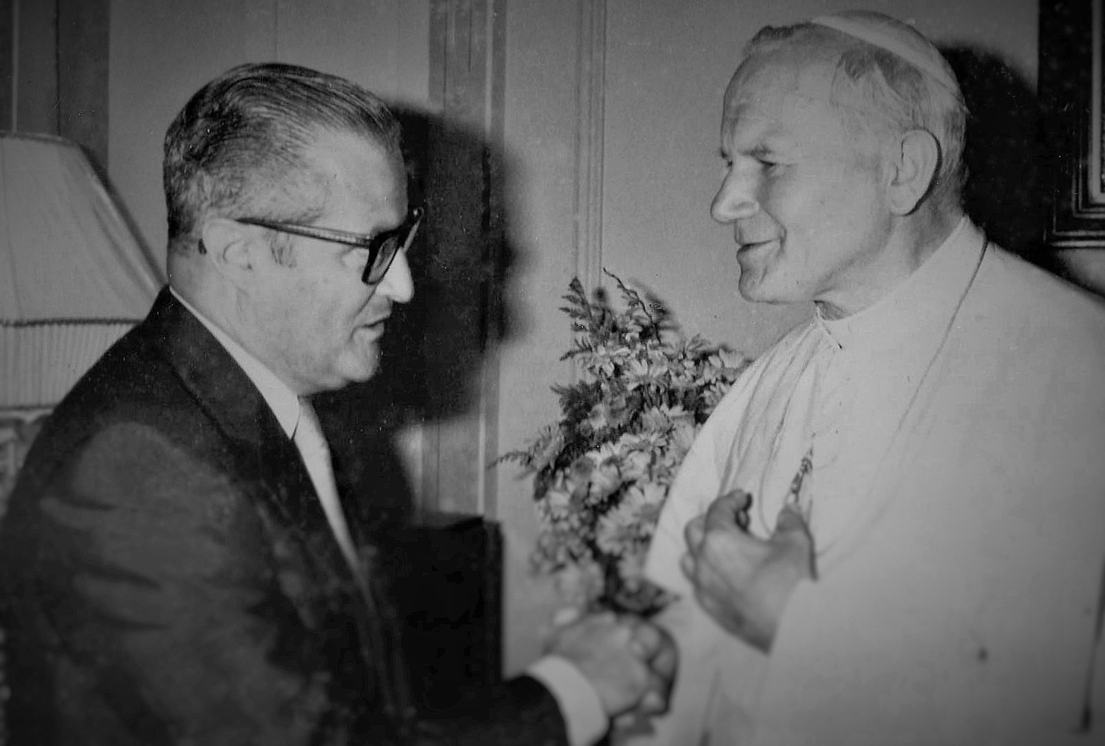 SS. Juan Pablo II y el embajador Ismael Moreno Pino. Foto tomada en 1985